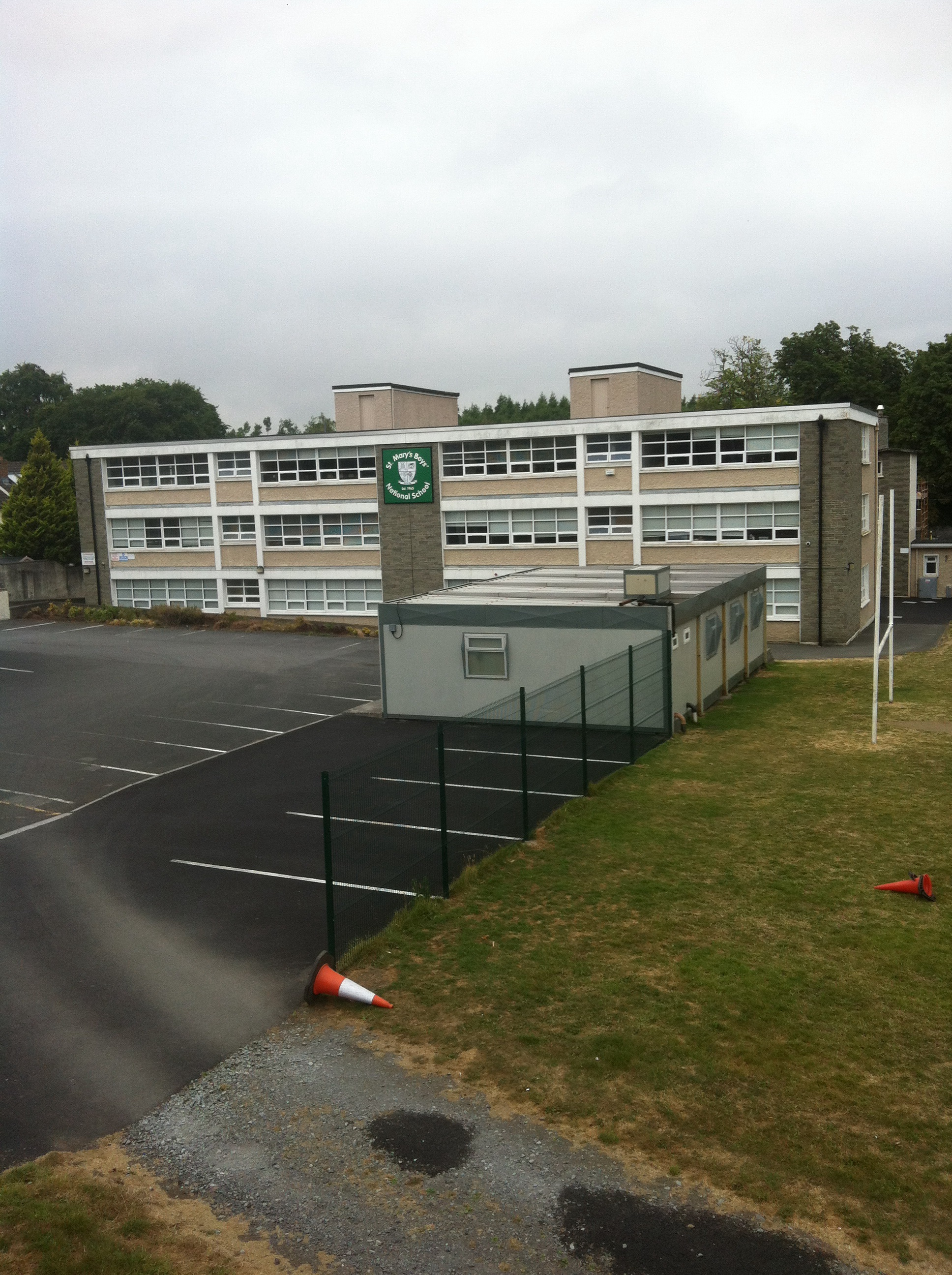 This is a photograph of the St. Mary's Boys' National School in Lucan, Co. Dublin